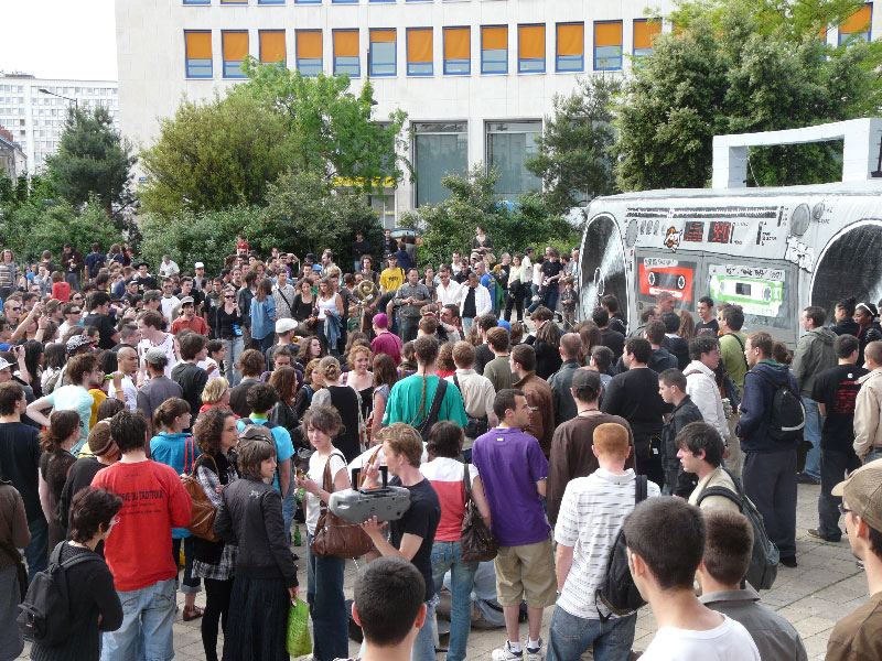 Ghetto Blaster events made for the 10th of Prun' radio.